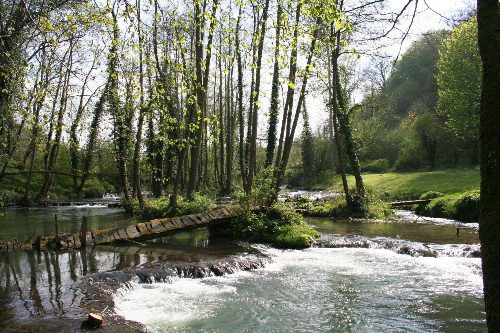 Marchin (Belgium), the Hoyoux river.